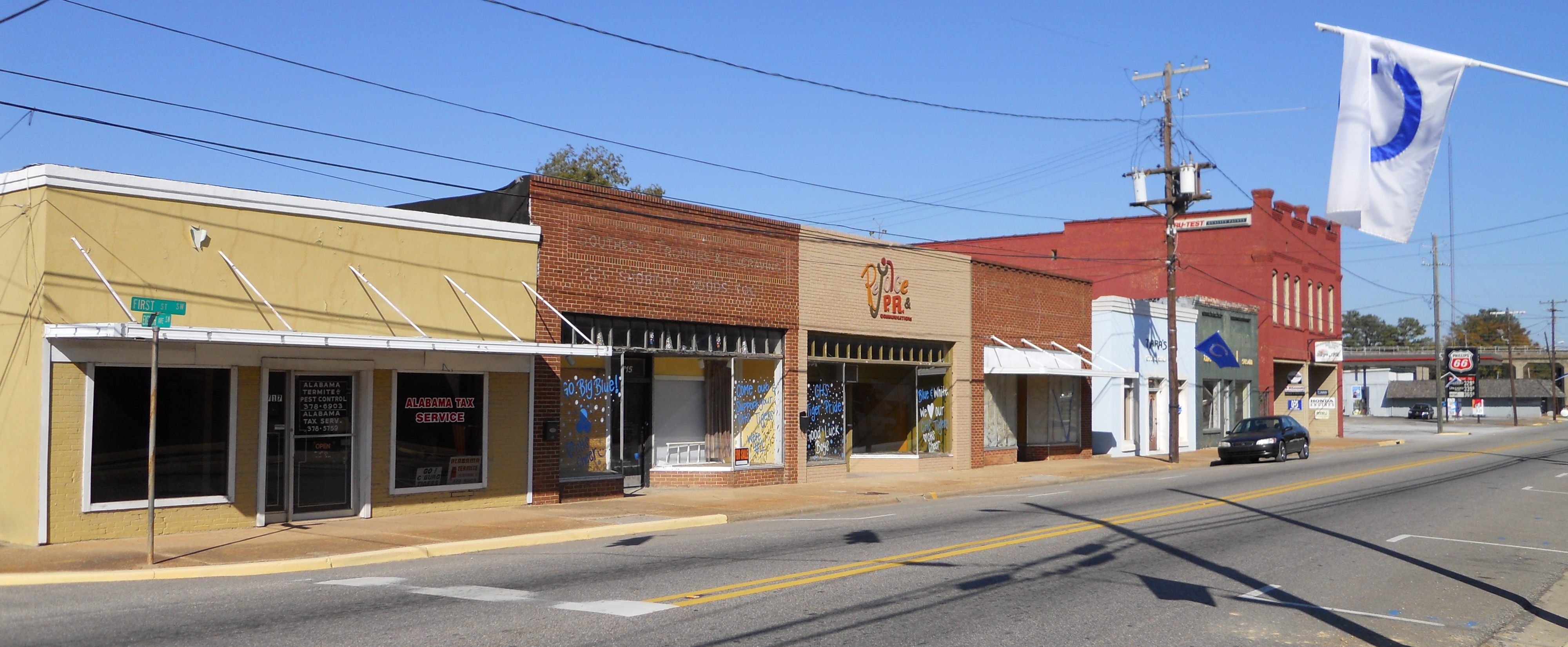 This is a photo of Childersburg, AL.